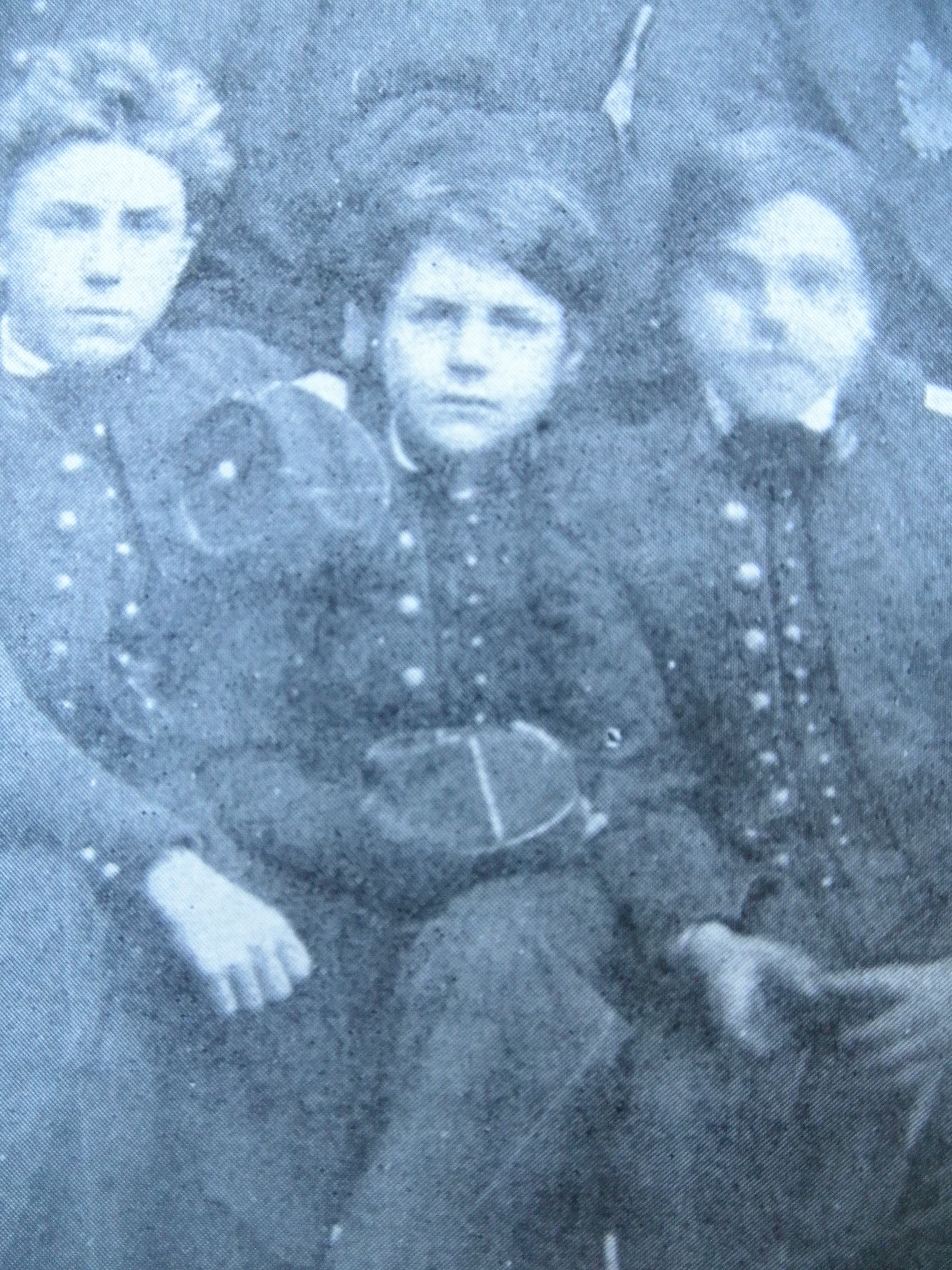 Paul Bourget (center) at lycée of Clermont-Ferrand, 1867